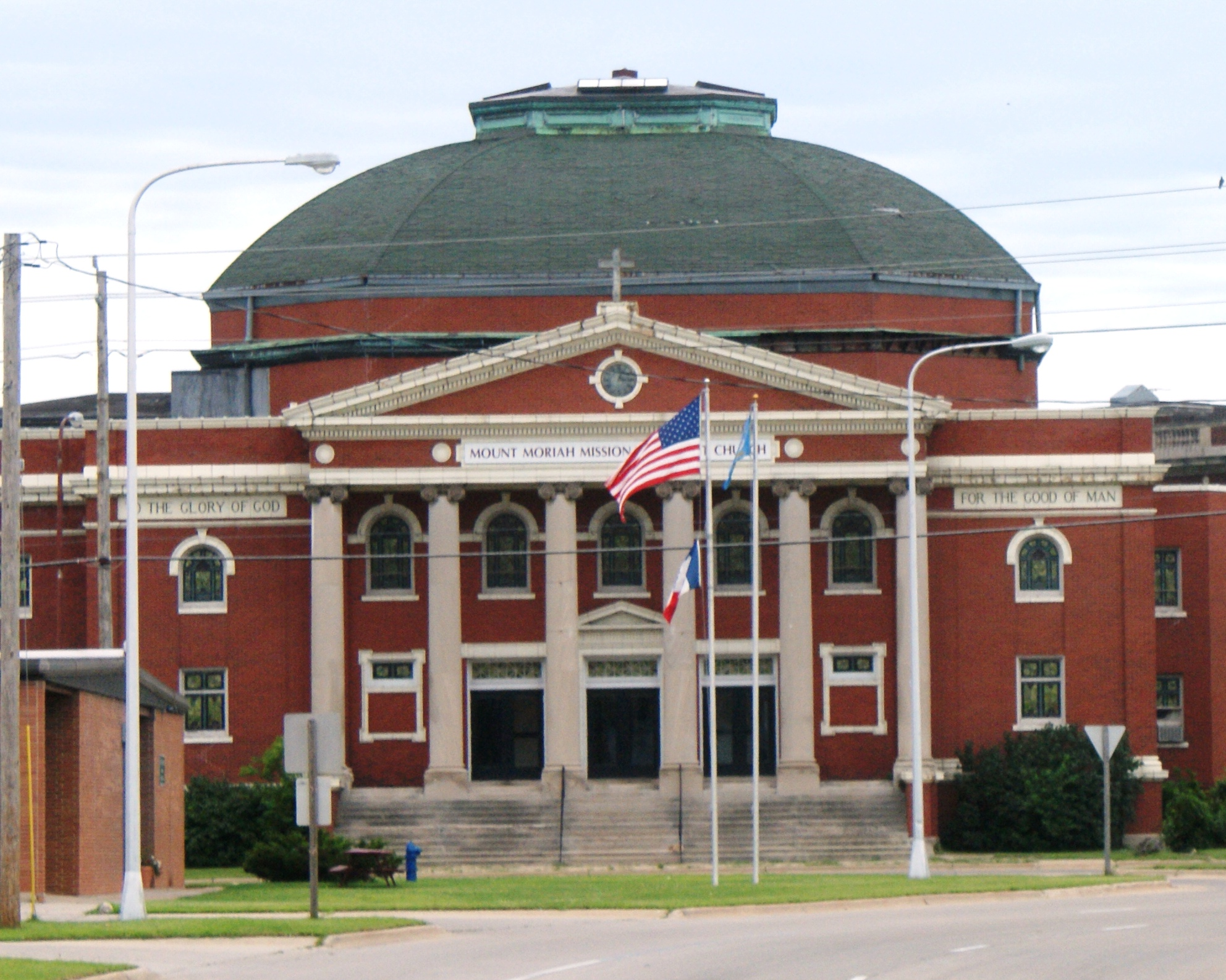 Built as the Grace Methodist Church at the east end of East 5th, Waterloo, Iowa.